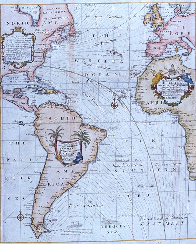 Edmond Halley's New and Correct Chart Shewing the Variations of the Compass (1701), the first chart to show lines of equal magnetic variation. See also exhibit G201:1/1 at the UK National Maritime Museum. The NMM scan may however be protected by copyright in the UK.